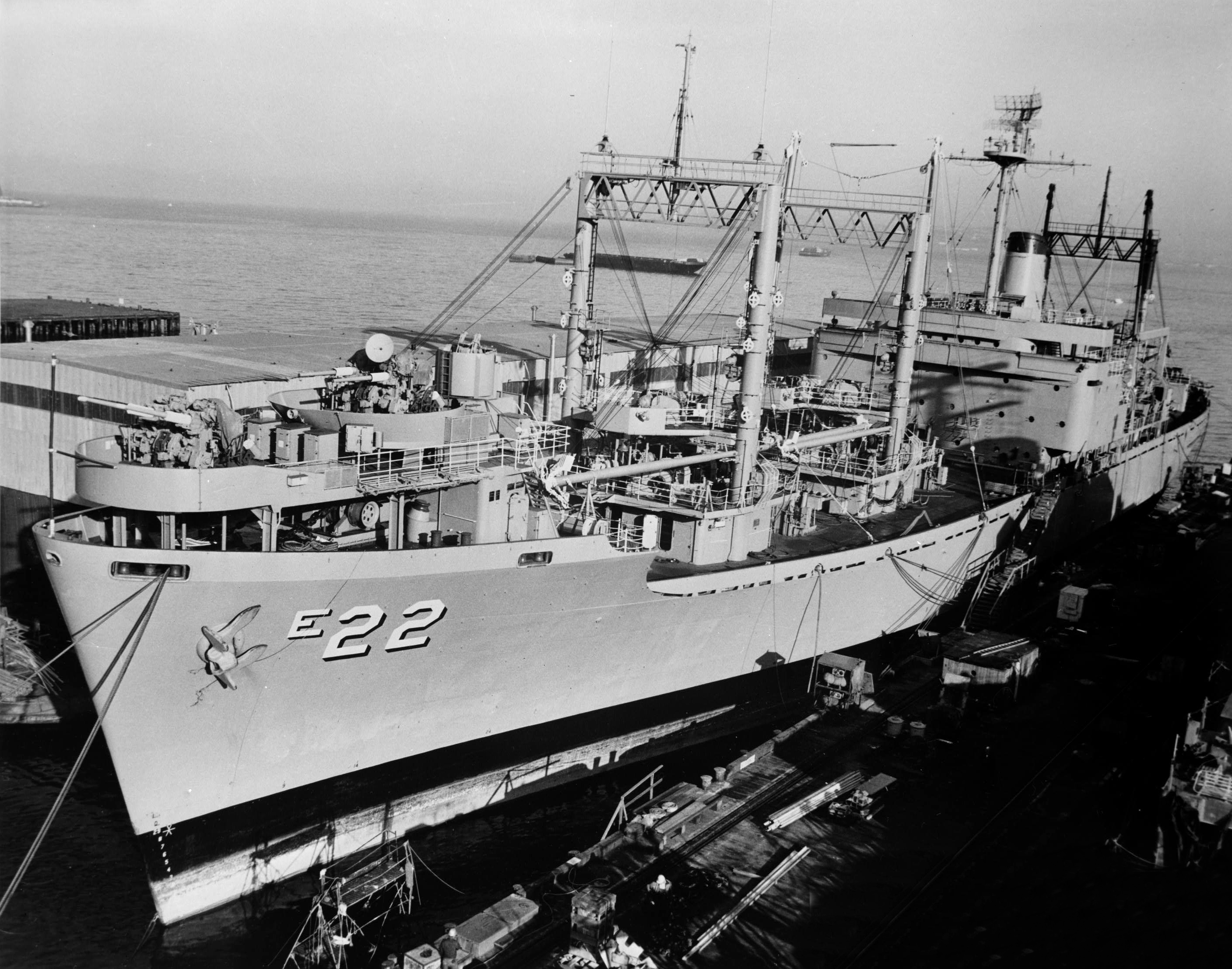 The U.S. Navy ammunition ship USS Mauna Kea (AE-22) at the Puget Sound Bridge & Dry Dock Company, Washington (USA), on 2 March 1965.